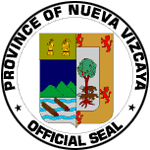 Provincial seal of Nueva Vizcaya, Philippines.